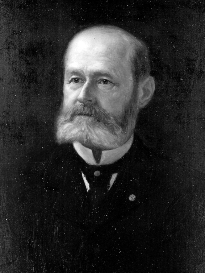 Daniel Garrison Brinton, american archaeologist and ethnologist.